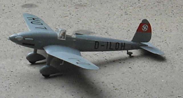 Model picture of Arado Ar 80